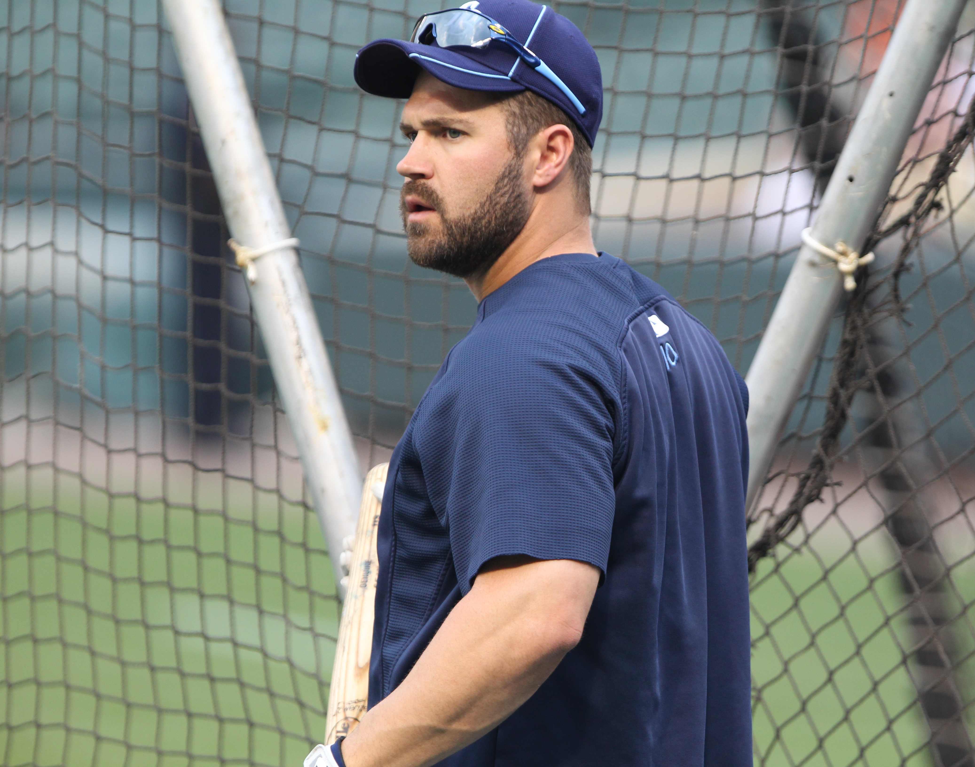 Kelly Shoppach